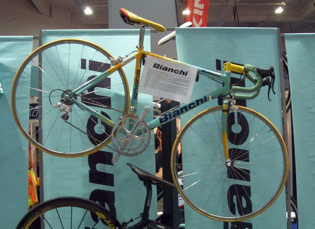 Apparently the very machine that Pantani used during the 1998 Tour de France. This particular machine being his mountain climbing bike.